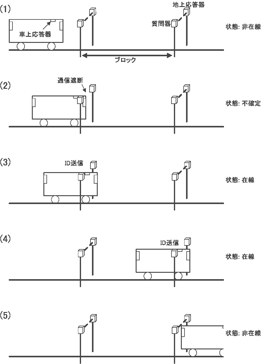 COMBAT(COmputer and Microwave Balise Aided Train control system) train position detection system concept